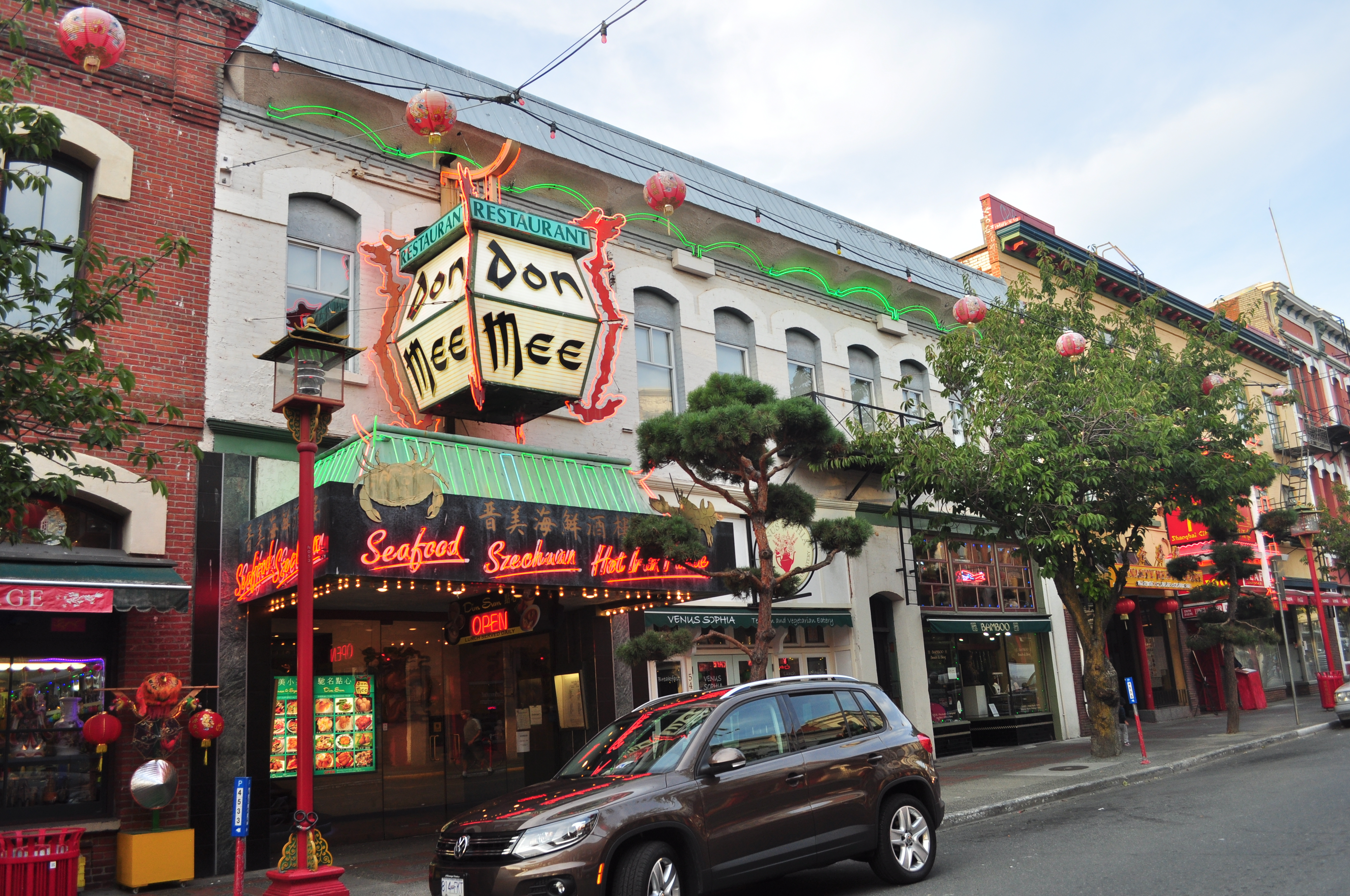 On Hing & Brothers Store, 546-52 Fisgard Street, Victoria, British Columbia.